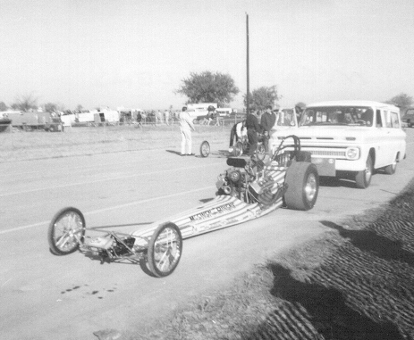 McEwen and Bivens, Tulsa World Finals 1967. Tom McEwen was ranked as the 16th driver on NHRA's Top 50 driversMcEwen & Bivens